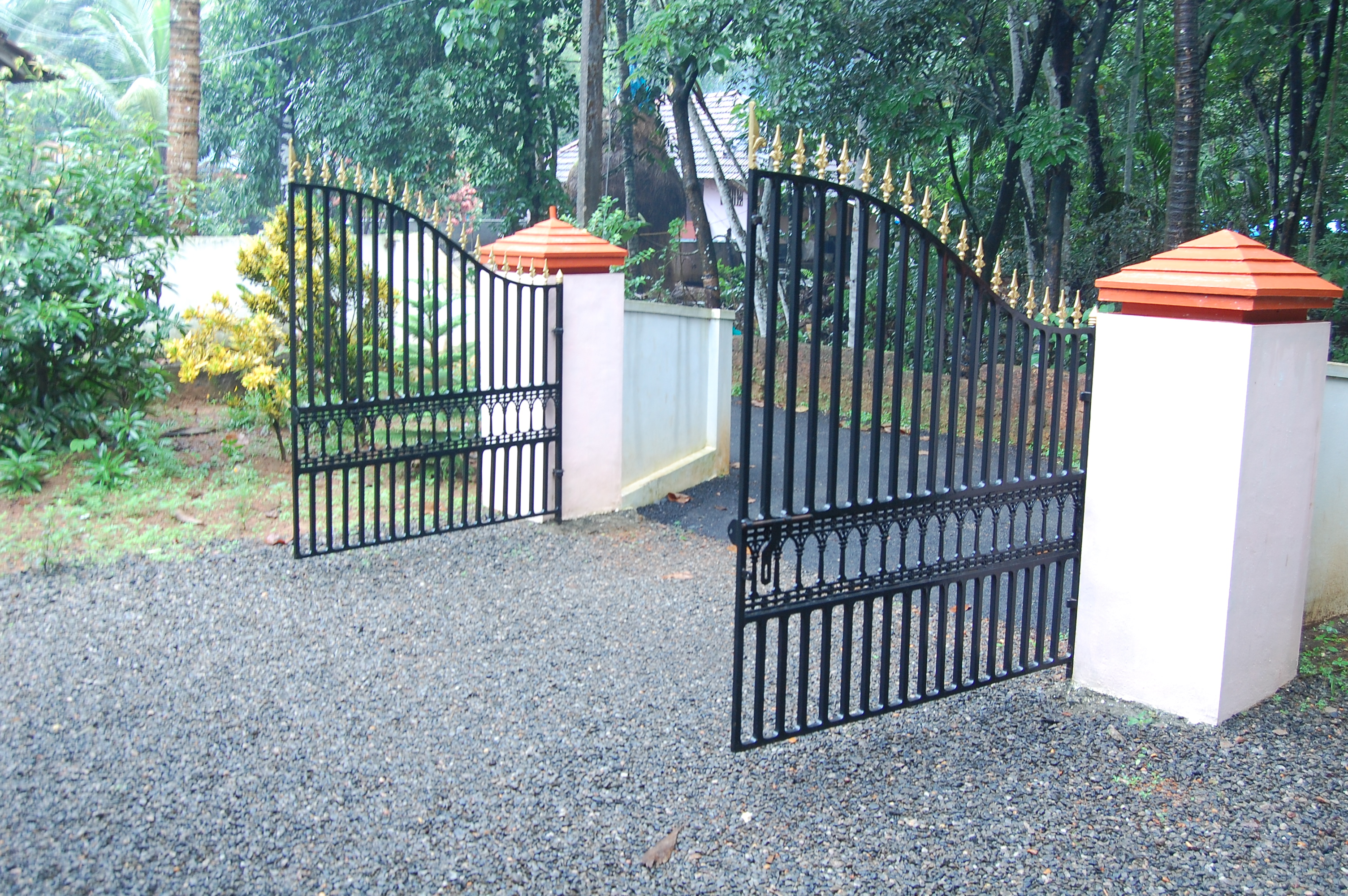 Iron gate